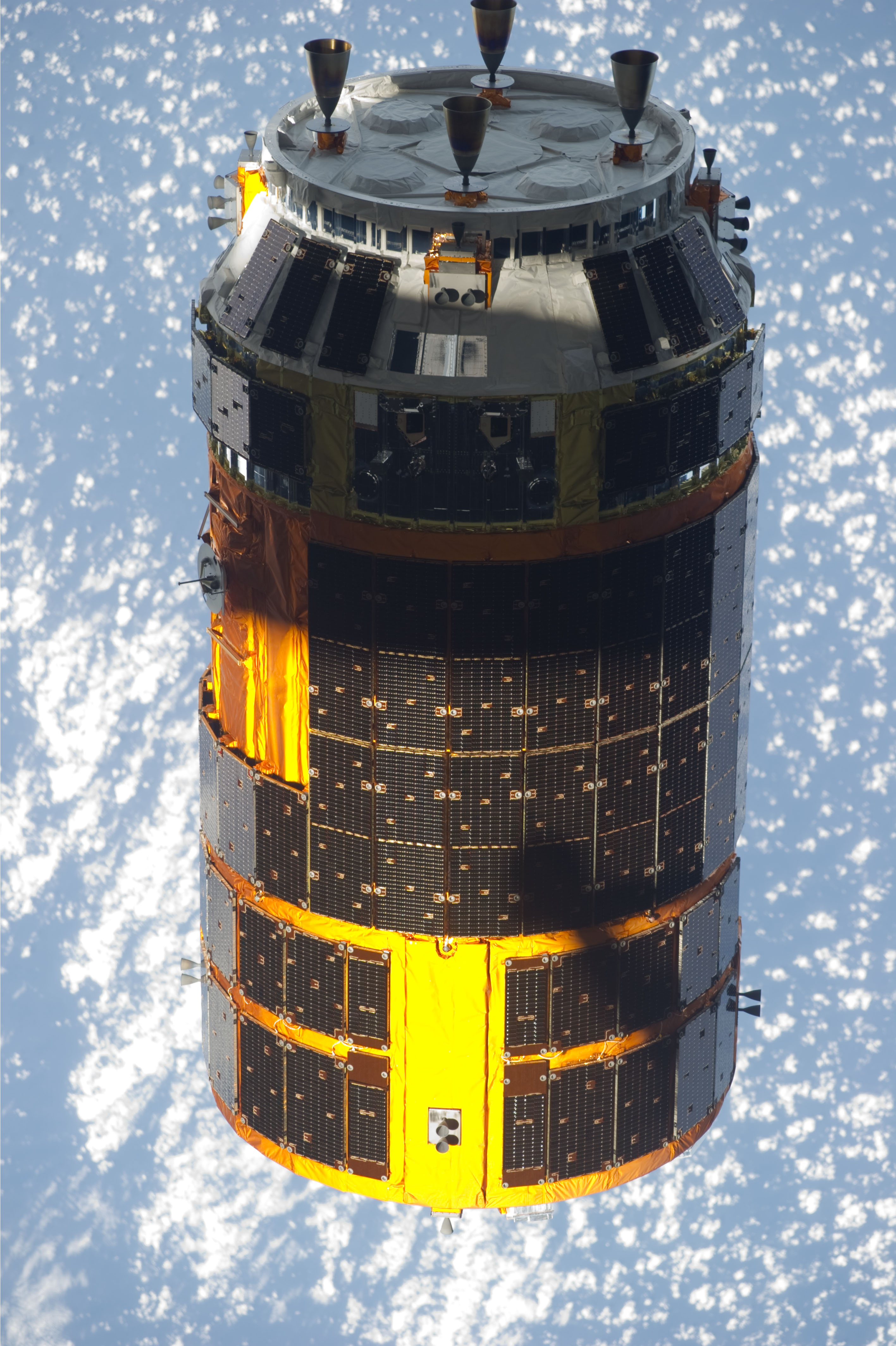 Backdropped by a blue and white part of Earth, the unpiloted Japan Aerospace Exploration Agency's Kounotori2 H-II Transfer Vehicle (HTV2), filled with trash and unneeded items, departs from the International Space Station. NASA astronaut Cady Coleman and European Space Agency astronaut Paolo Nespoli, both Expedition 27 flight engineers, used the station's robot arm to grapple the HTV2 and unberth it from the Earth-facing port of the Harmony node. The cargo craft was released at 11:46 a.m. (EDT) on March 28, 2011.